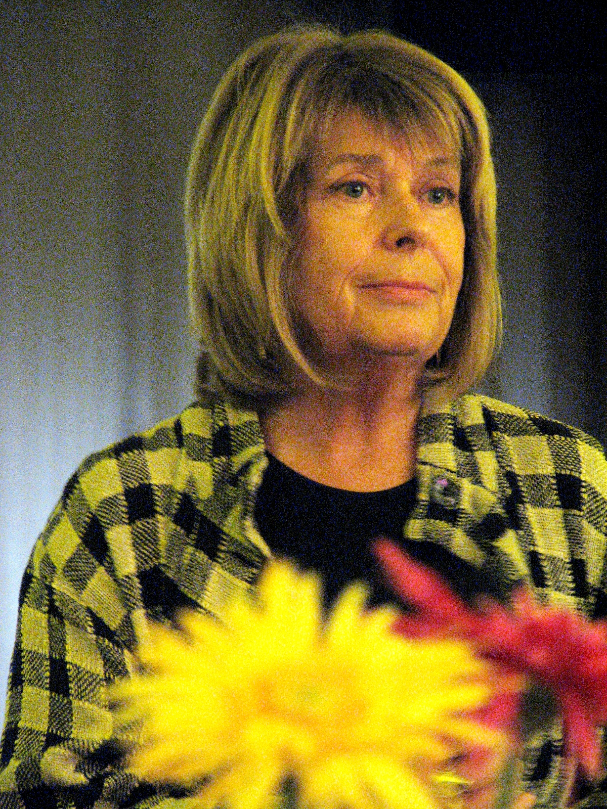 Eeva Park performing in restaurant-lounge Novell in Tallinn.